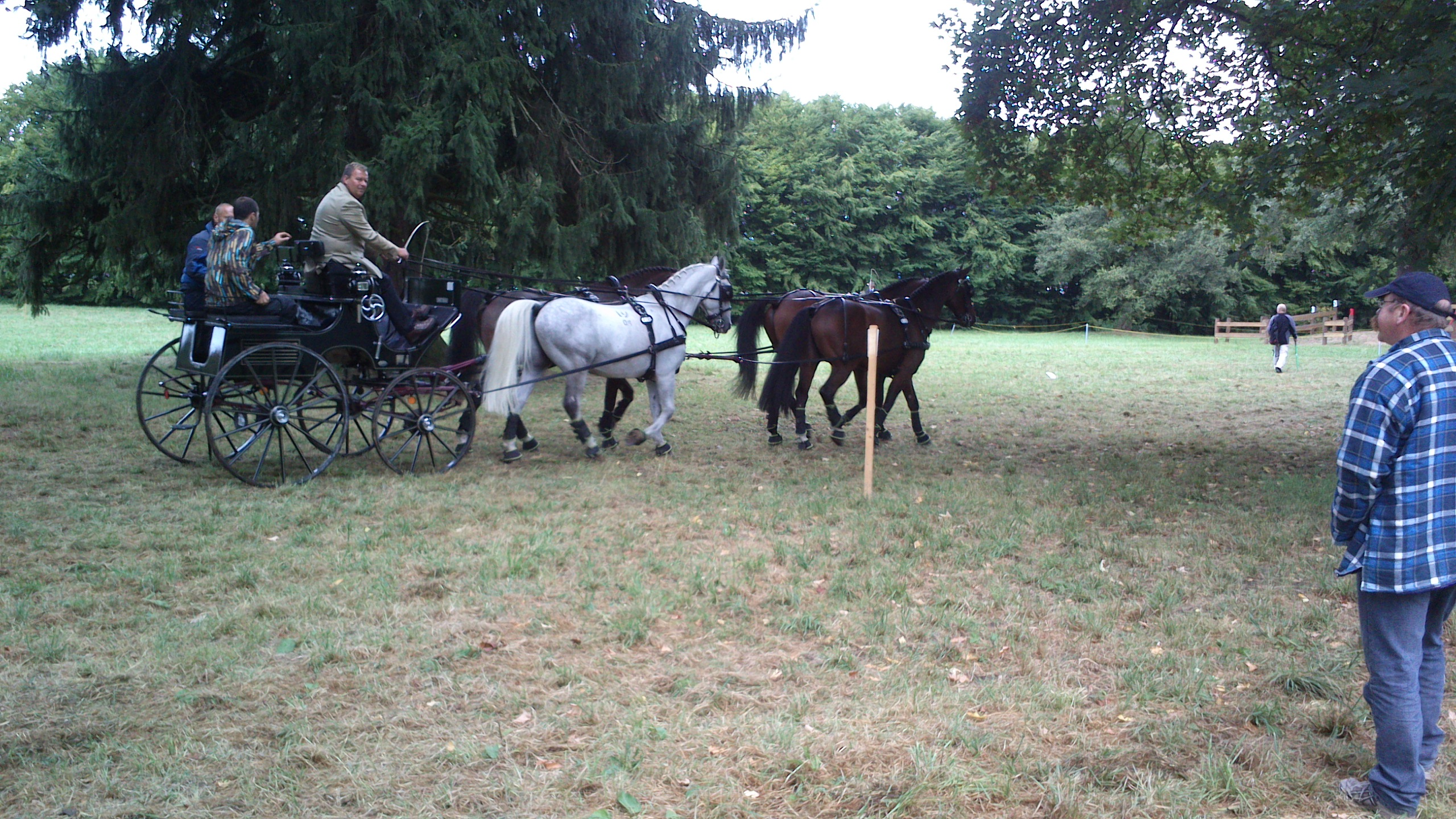 CAI***-H4 WCup Q Donaueschingen 16-9-2016 Kegelfahren 0488